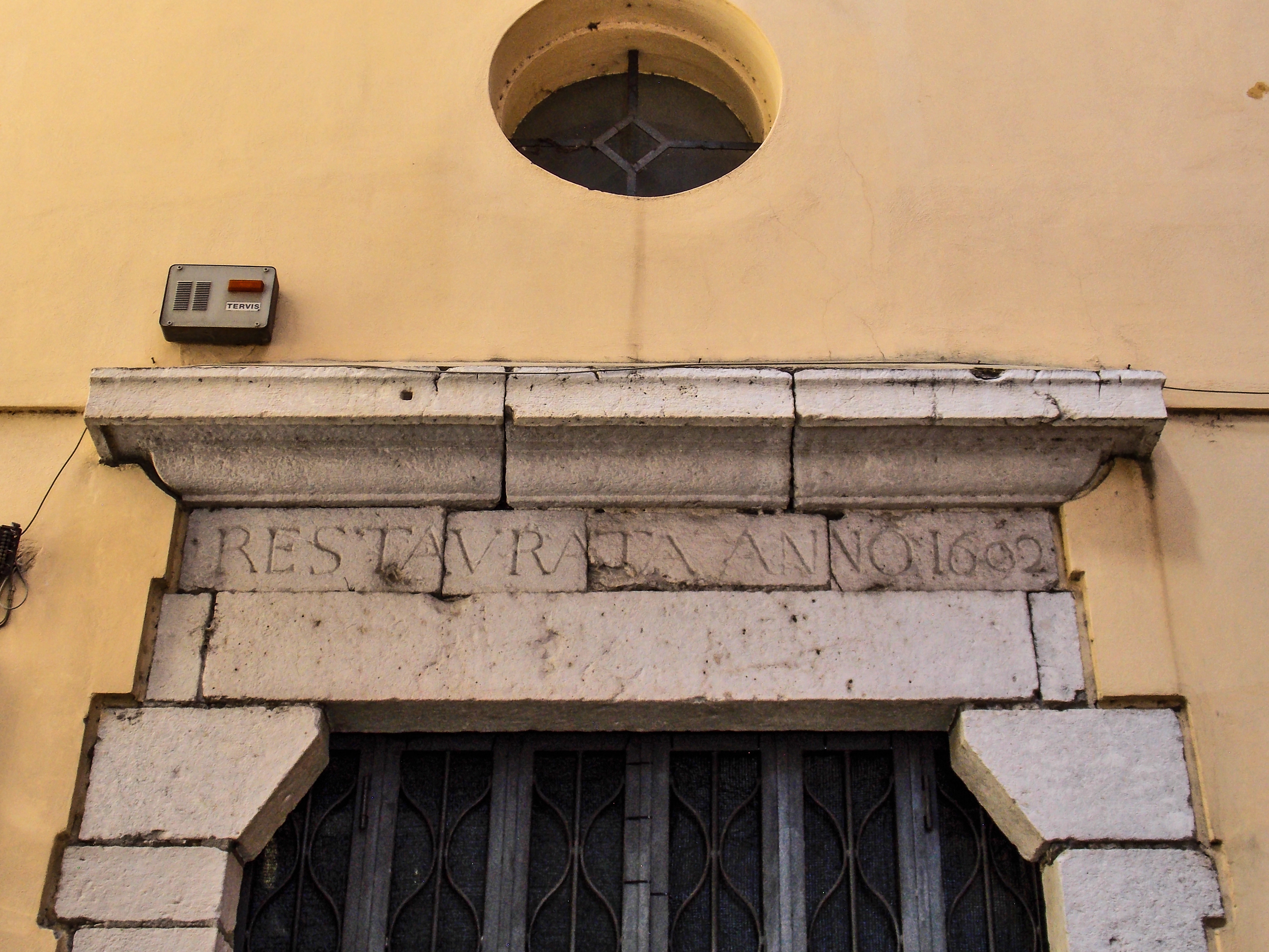 La chiesa sconsacrata di Santo Stefano dei Neofiti, nel quartiere ebraico di Benevento